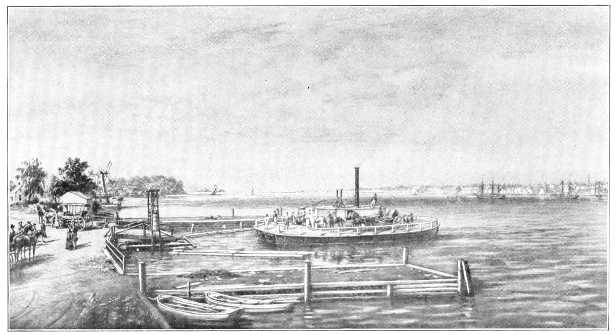 pg 7 of From canoe to tunnel.